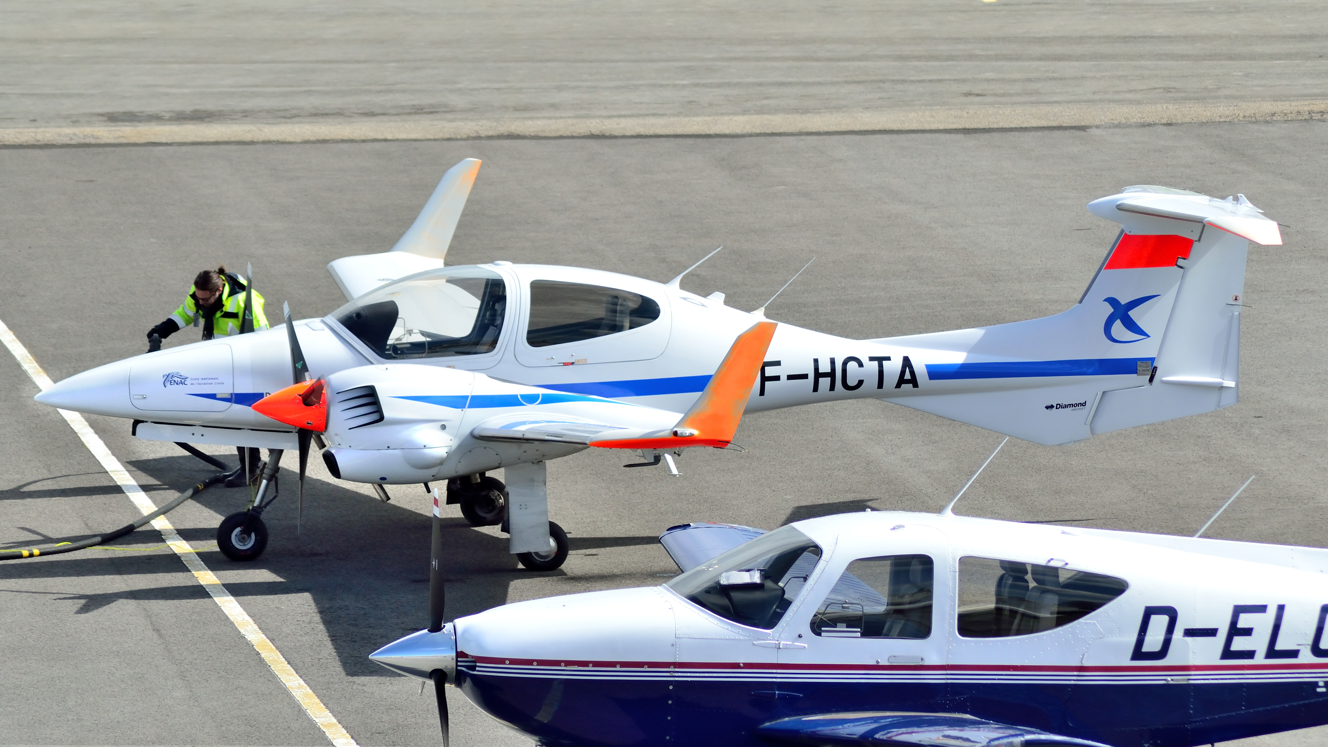 ENAC's F-HCTA on the apron at Le Touquet-Paris-Plage Airport